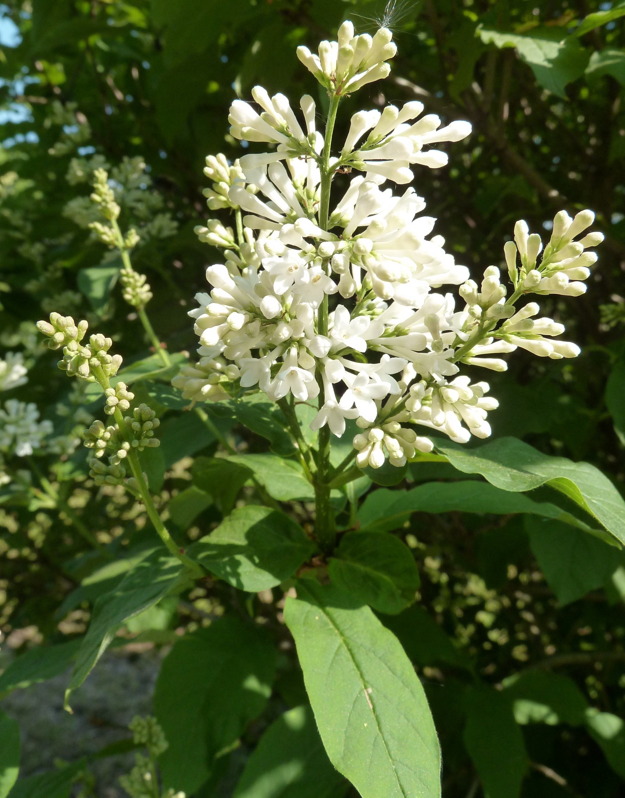 Syringa josikaea cv. Holger in Arboretum de l'école du Breuil (Paris, France)